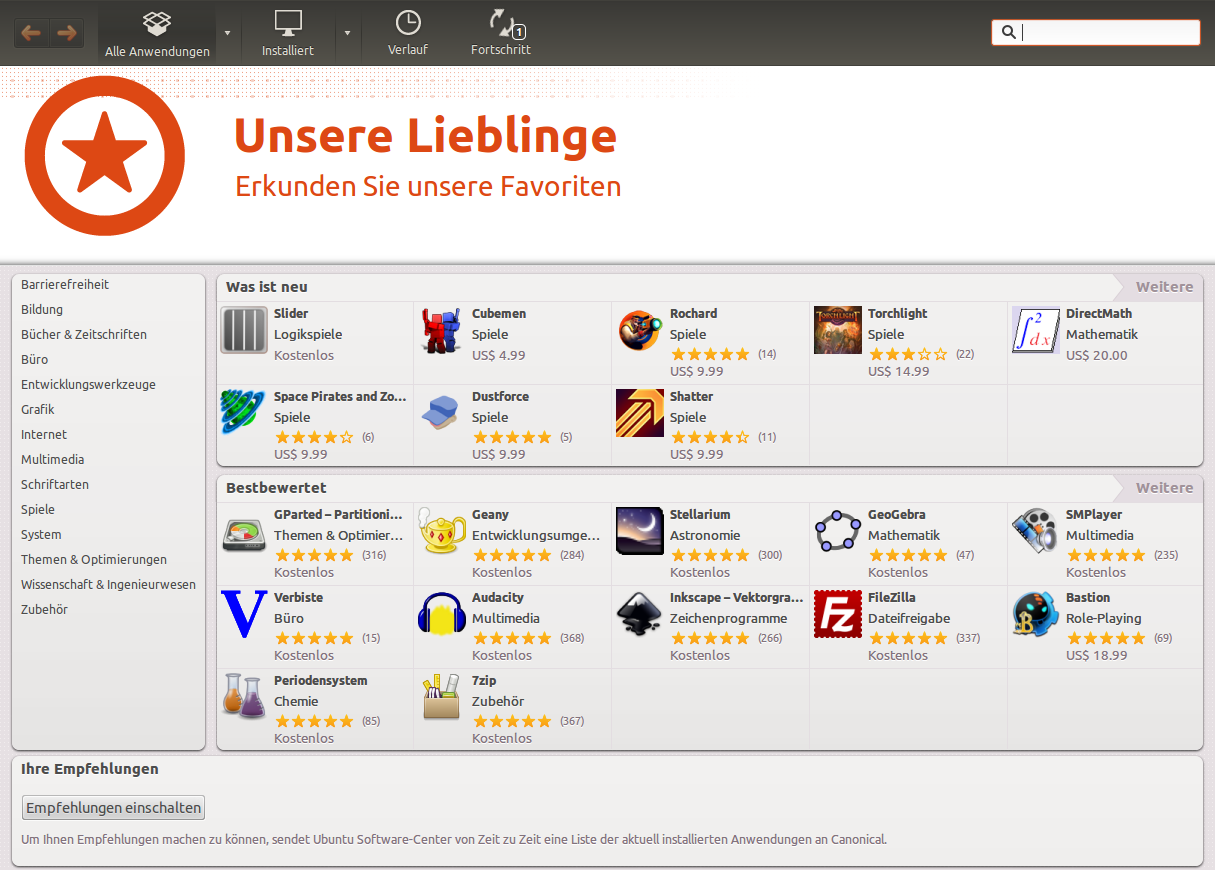 An overview of the Ubuntu Software-Center as of version 12.04 (Precise Pangolin). This is the german starting-screen